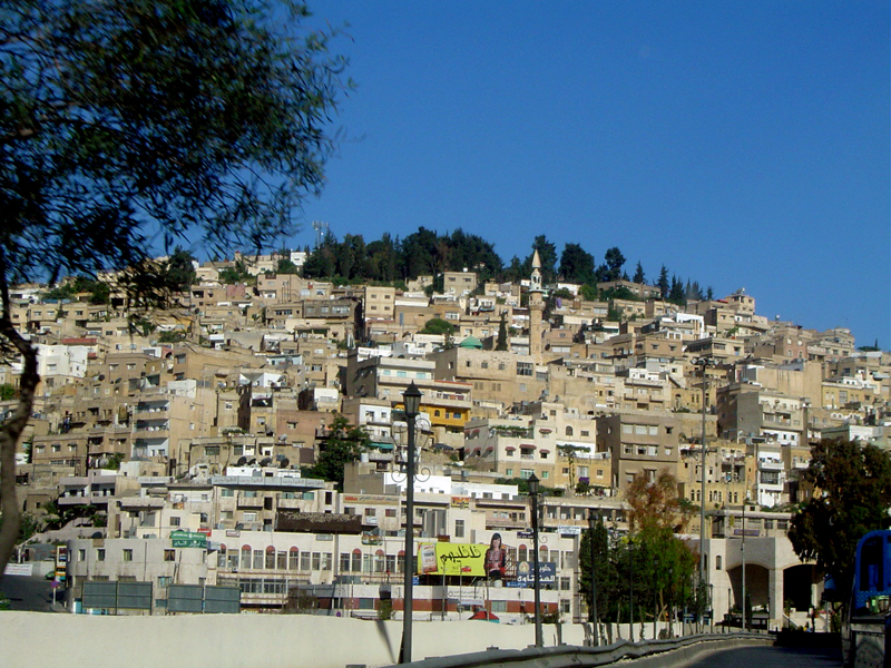 A view of a crowded mountain, in As Salt - Jordan.